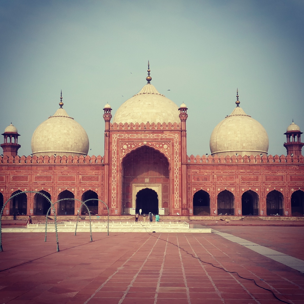 One of the most beautiful mosques I've ever seen.